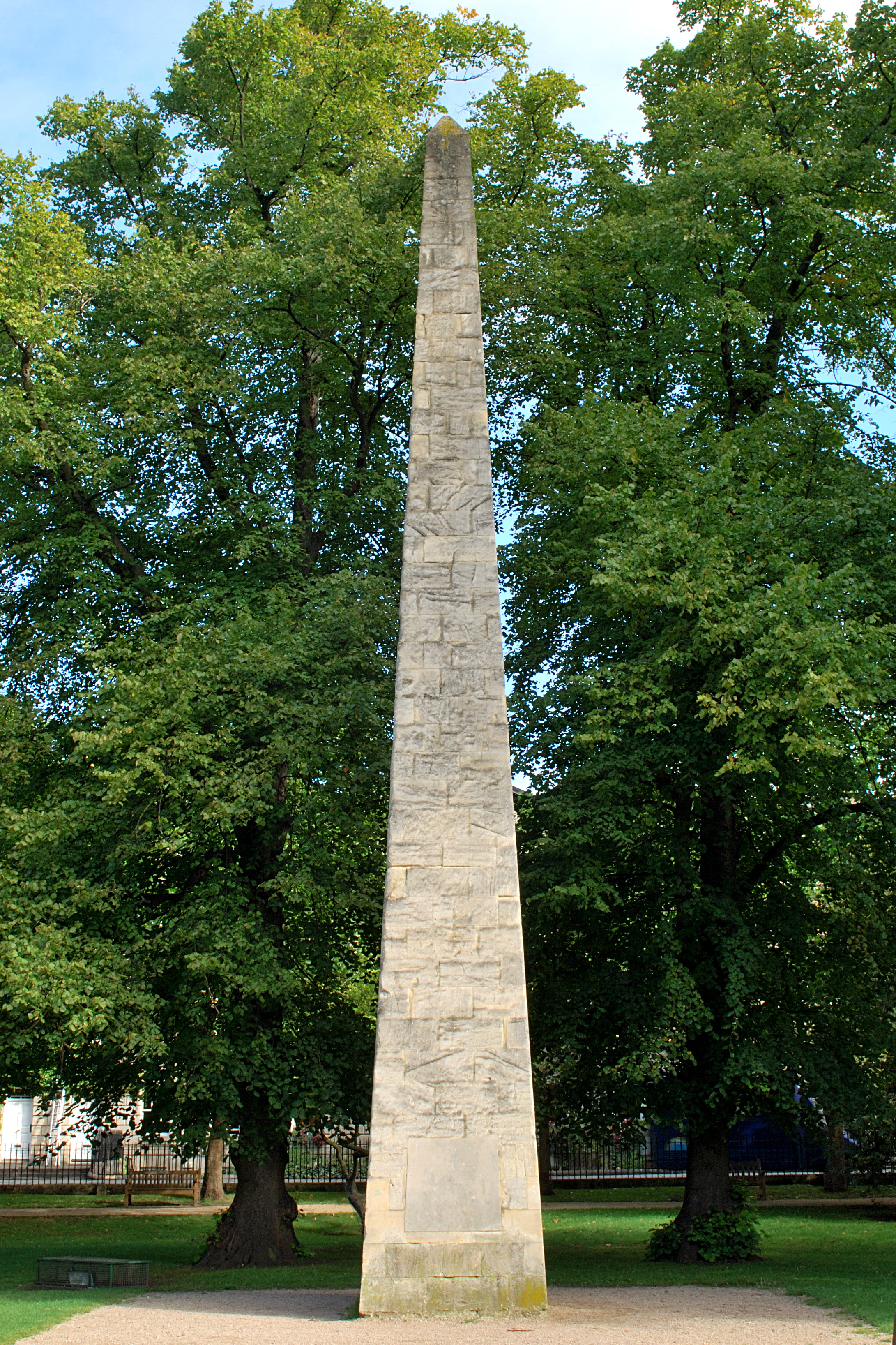 The Beau Nash obelisk in Queen Square in Bath